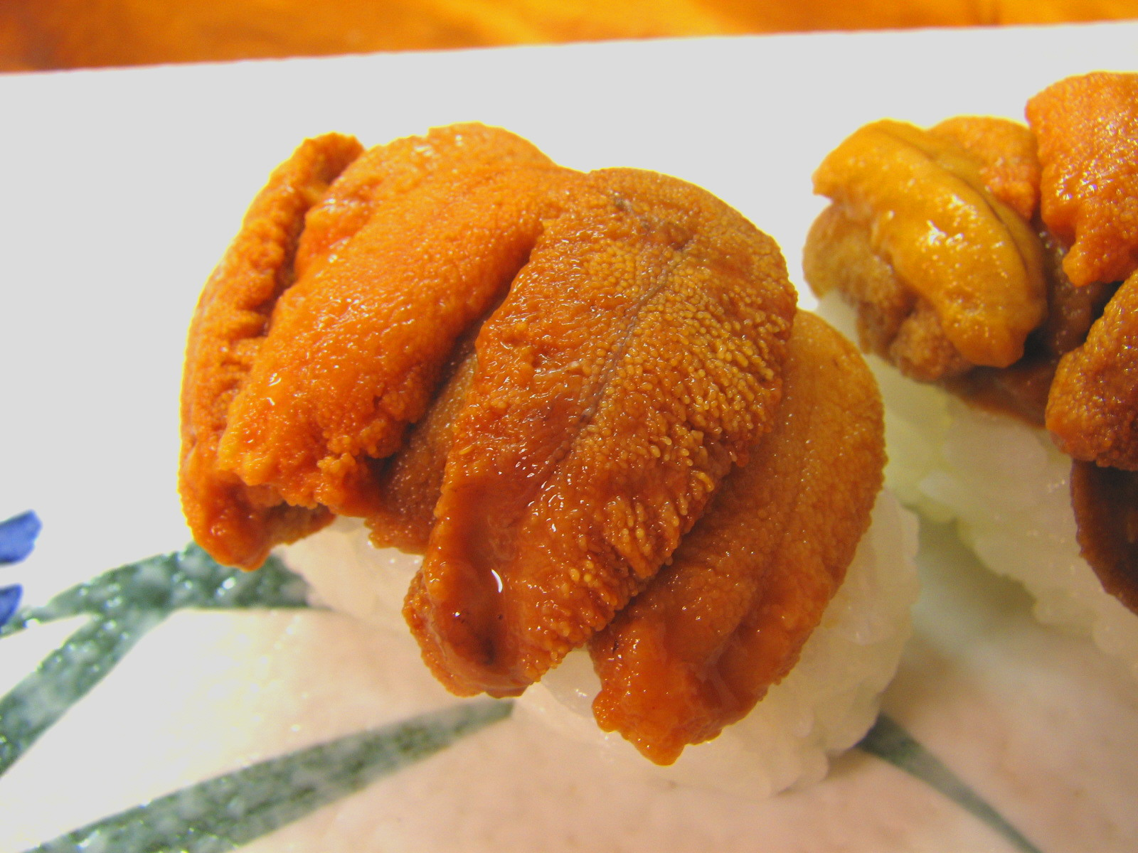 Sushi of Uni(Sea urchin):ウニの寿司・千葉県香取市「まこと屋」